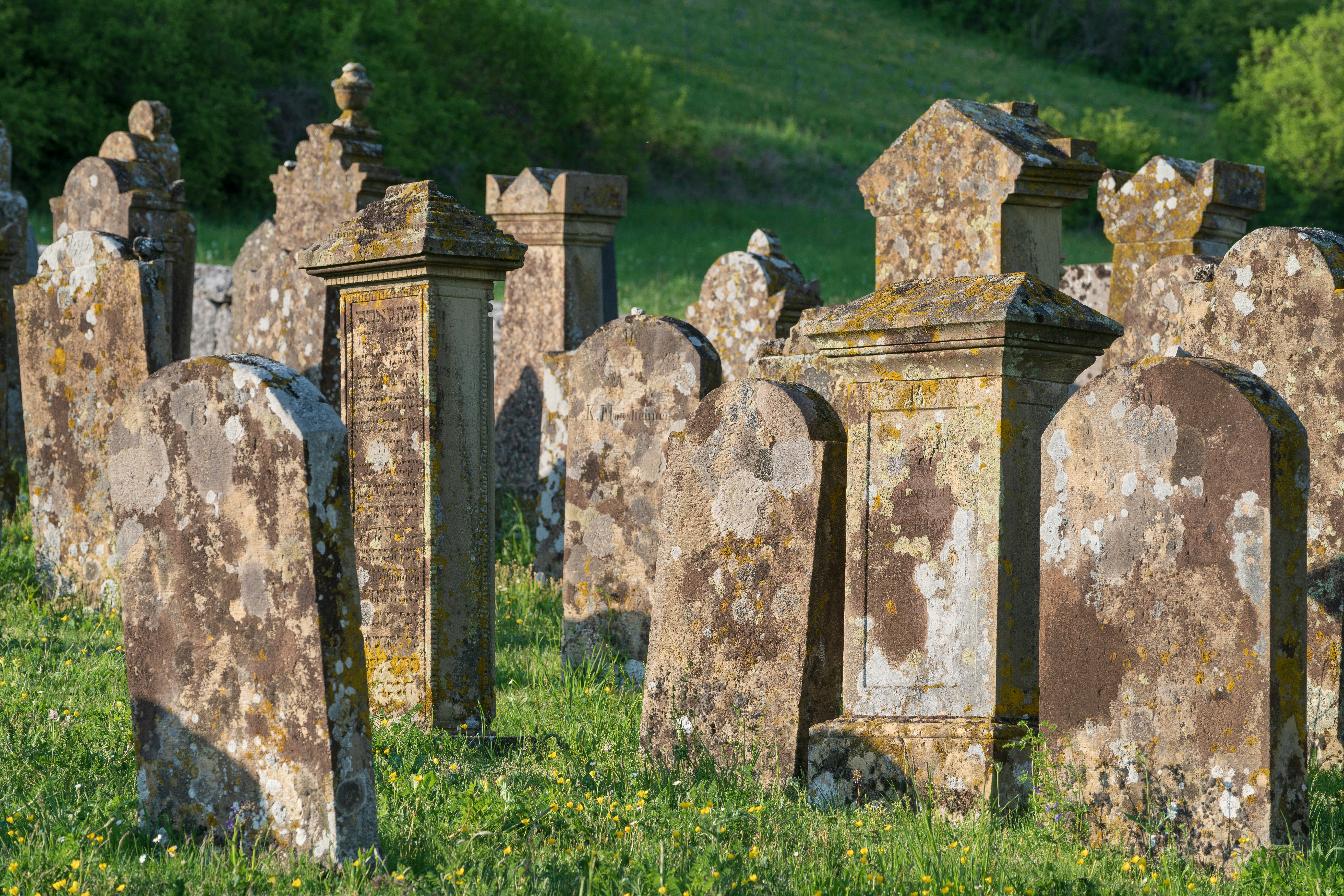 Jewish cemetery near Hohebach, a district of Dörzbach, Germany. The photo shows a typical detail of the cemetery.